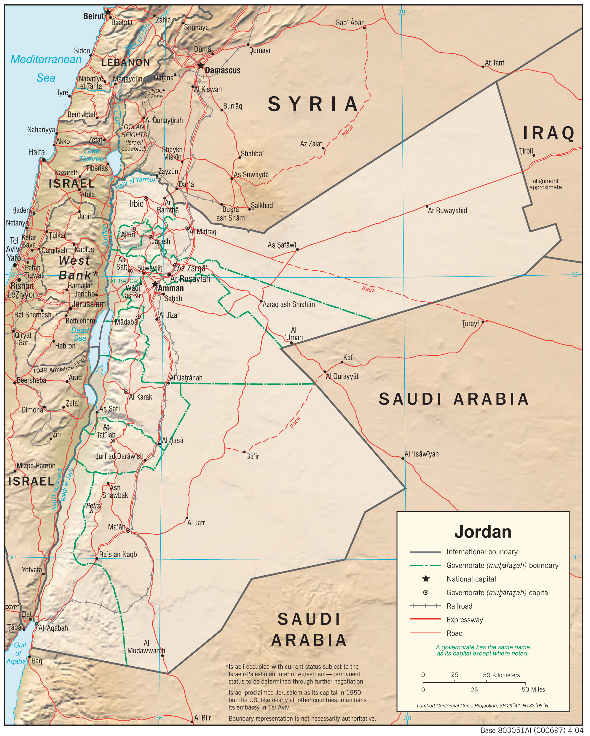 Topographic map of Jordan (shaded relief), 2004.